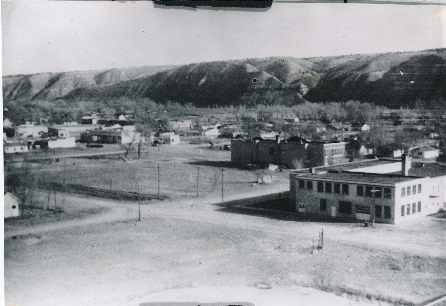 Duchesne Elementary School center, High school on the right. Looking down off "D" hill